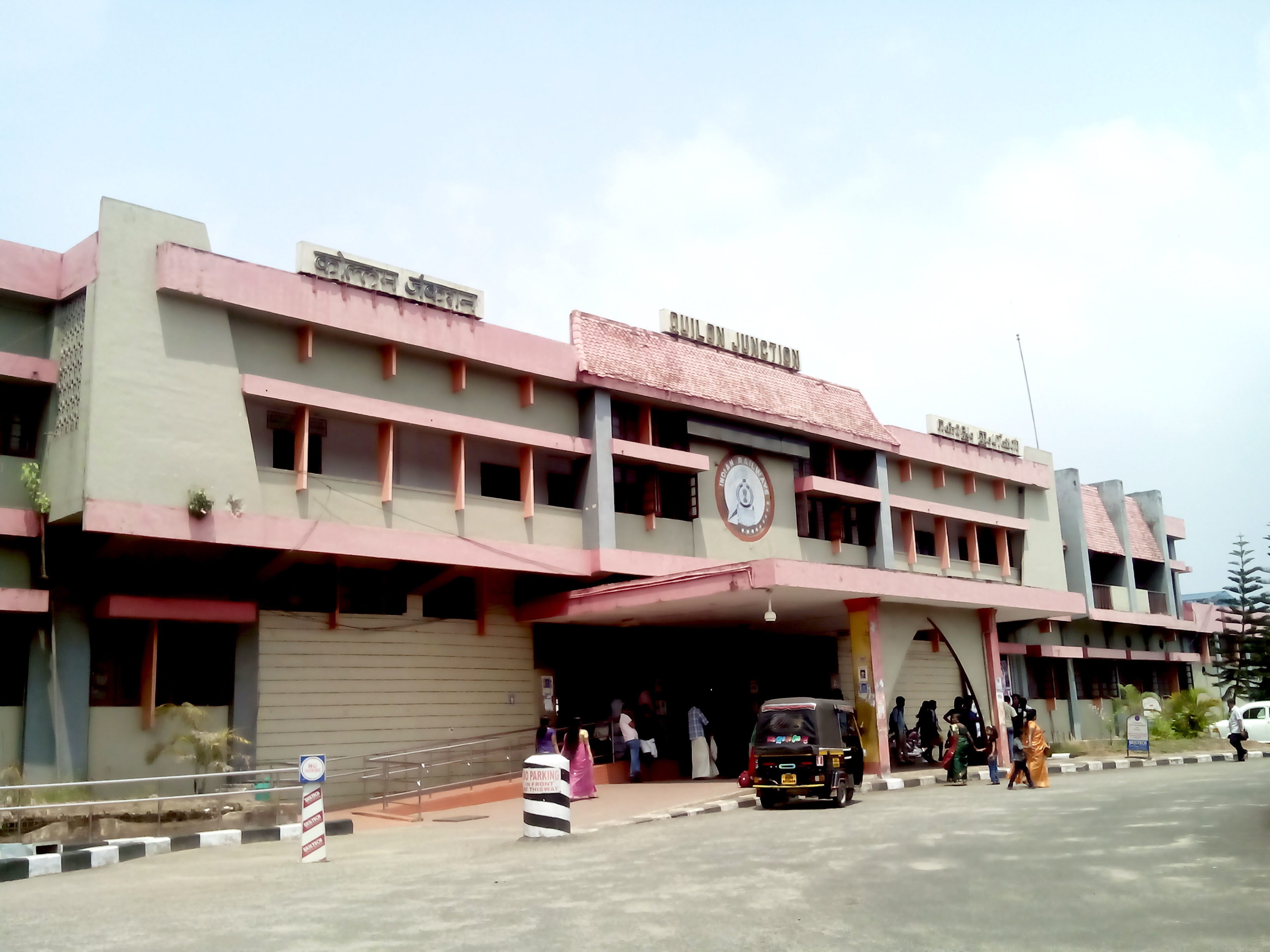 Entrance of Kollam Junction Railway Station which is facing towards the NH-66